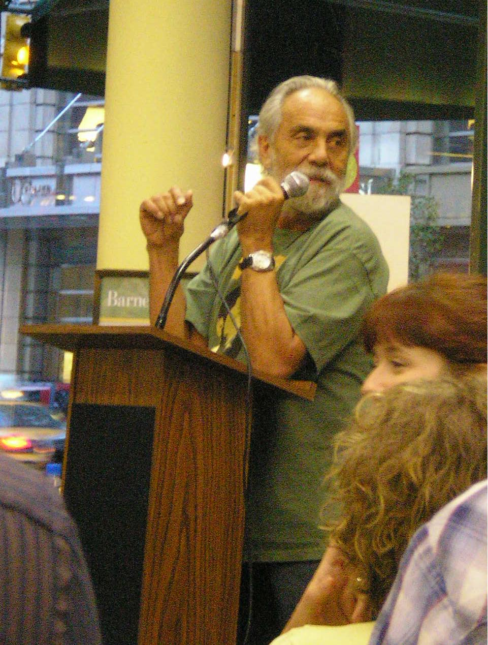 Tommy Chong by David Shankbone, New York City